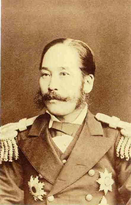 Viscount Enomoto Takeaki (榎本 武揚?, 5 October 1836 – 26 October 1908) was a samurai and admiral of the Tokugawa navy of Bakumatsu period Japan, who remained faithful to the Tokugawa shogunate who fought against the new Meiji government until the end of the Boshin War. He later served in the Meiji government as one of the founders of the Imperial Japanese Navy.